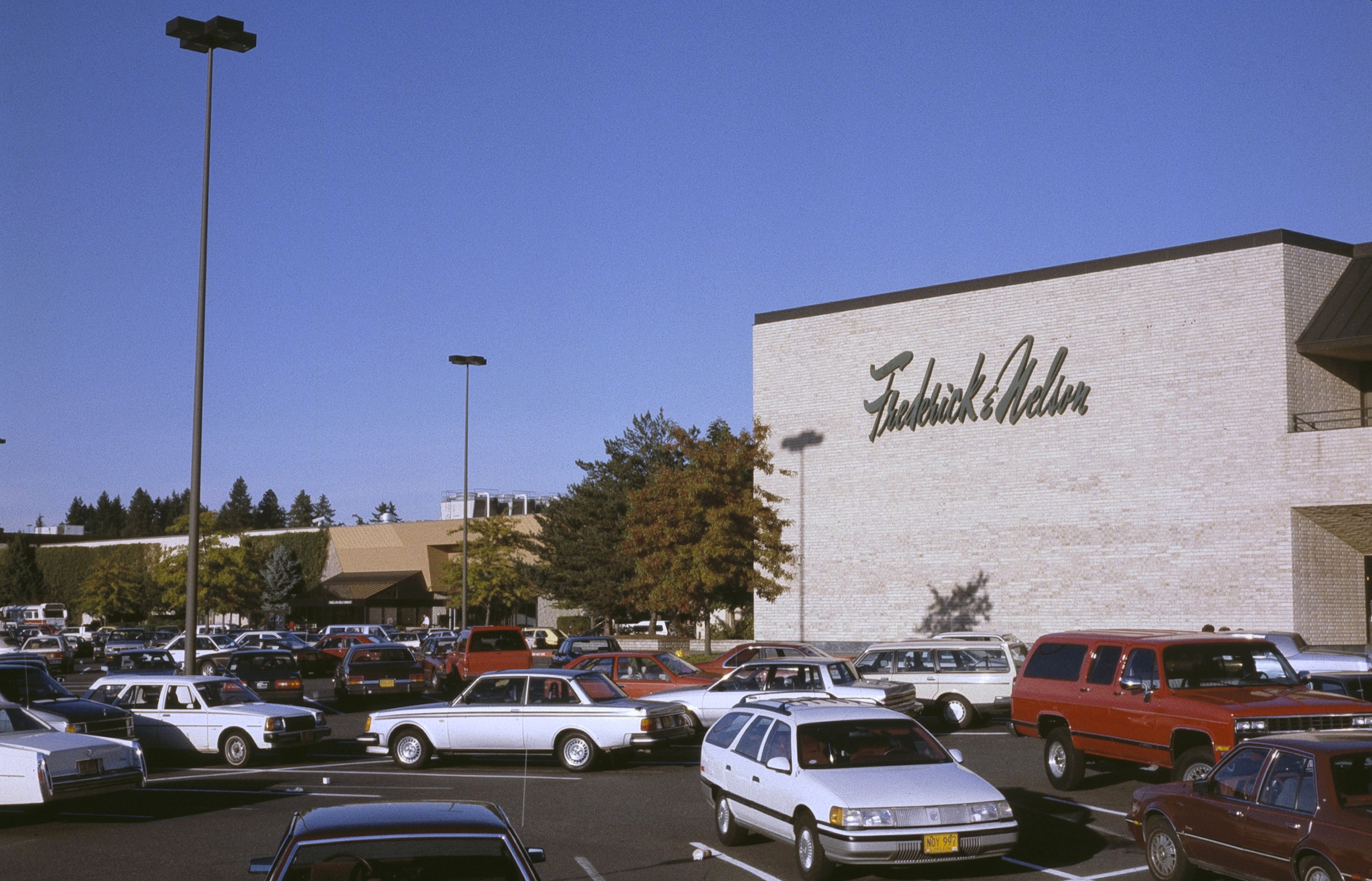 The former Frederick & Nelson store at Washington Square mall in Tigard, Oregon (in the Portland metropolitan area) and the central entrance on the mall's west side, in 1988. The F&N closed in 1991, and the building was torn down and replaced by a larger one, for Nordstrom, opening in 1994. The parking area and entrance in the lefthand part of the photo were replaced by a 2005 expansion of the mall, plus a two-story (but smaller-footprint) parking structure.